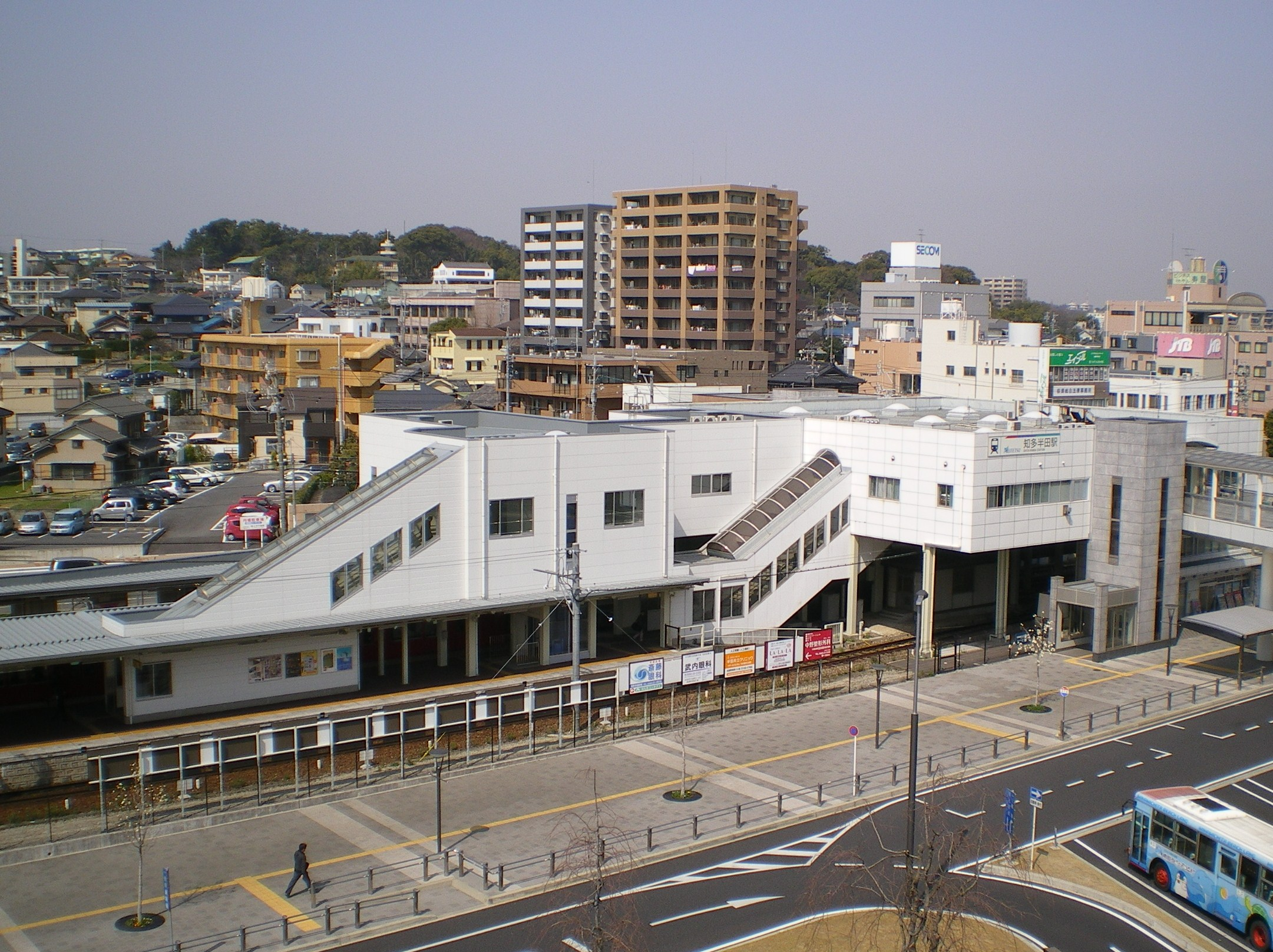 Nagoya Railroad Kowa Line Chita-Handa Station East Plaza